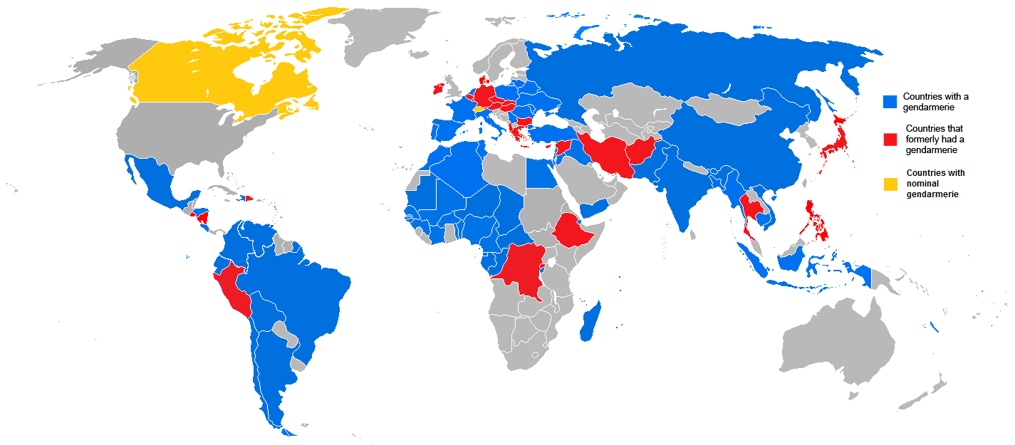 Gendarmerie around the world. Blue are the countries that currently have a gendarmerie, red countries that formerly had one and yellow countries are those that maintain a (nominal) gendarmerie in name or title only.